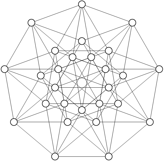 A unit-distance embedding of the Hamming_{3,3} graph.